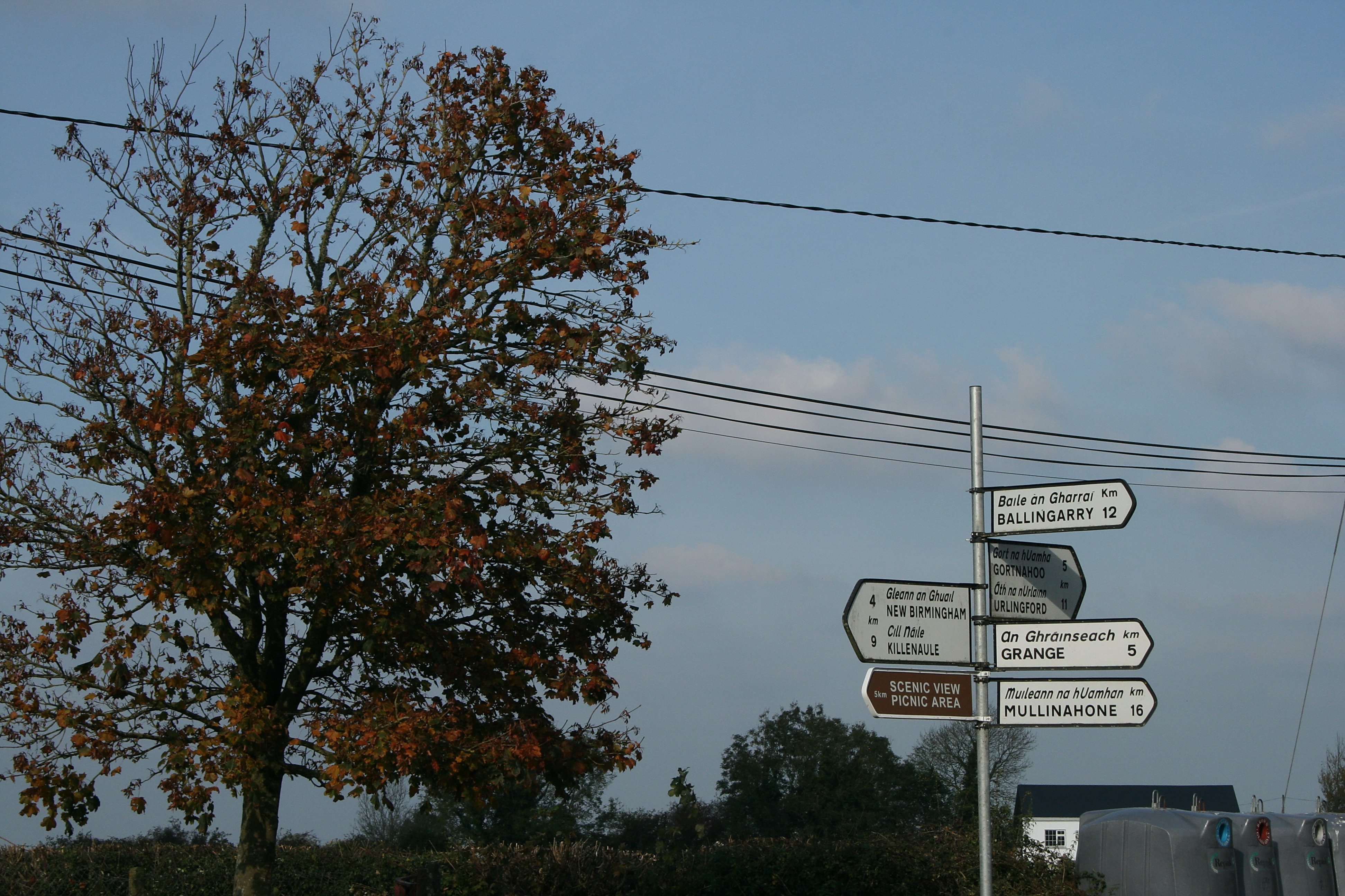 Ballysloe, County Tipperary (2), near to Ballysloe, Tipperary, Ireland. On the R689.